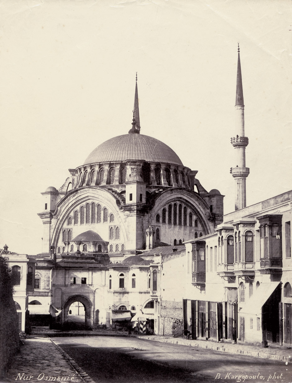 Views of Constantinople and surroundings. Albumen print. Circa 25 x 19 cm